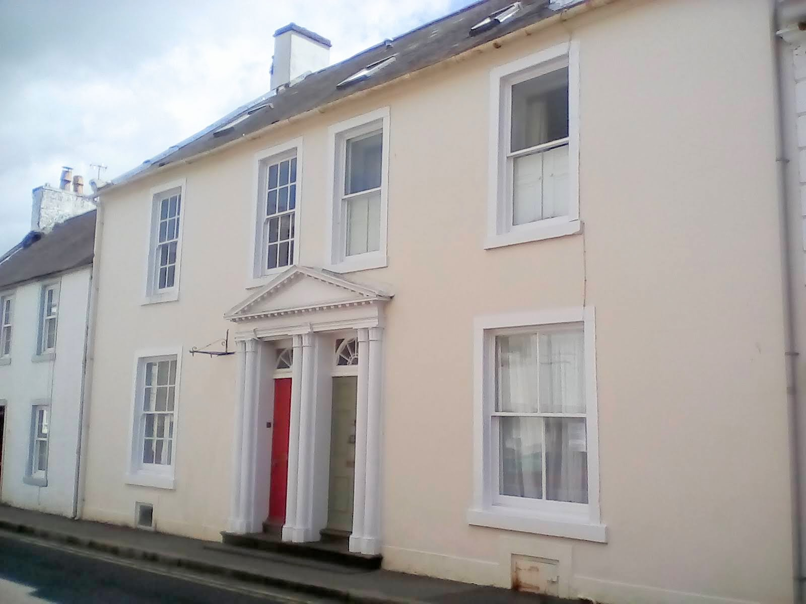 Home of artist David Sassoon (1888- 1978) in Kirkcudbright, Scotland, the Artists' Town.